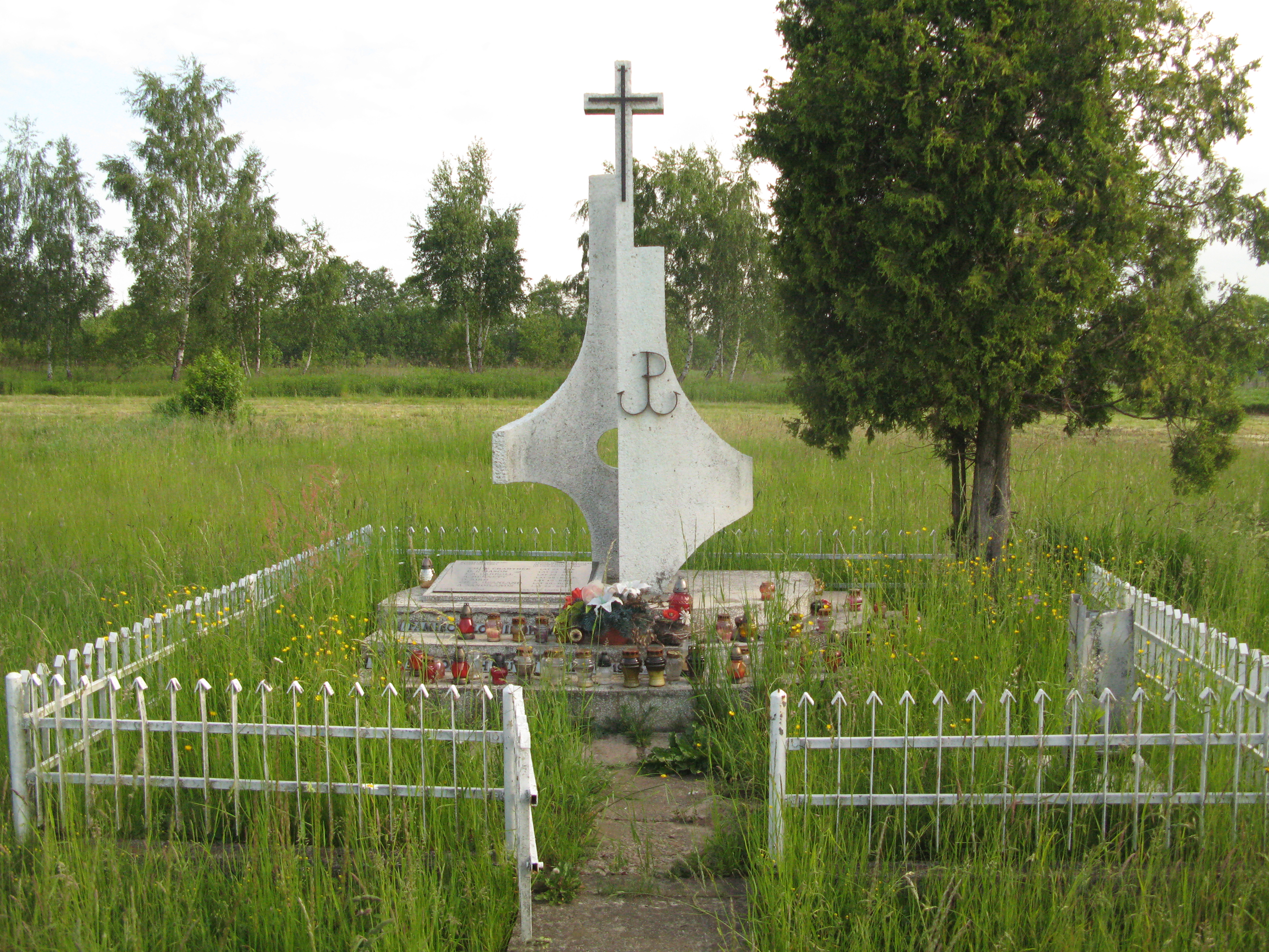 Monument of Allied in Dębina Zakrzowska, Poland